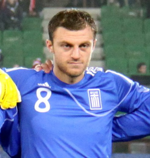 Greece national football team against the Austrian national football team (2:1)